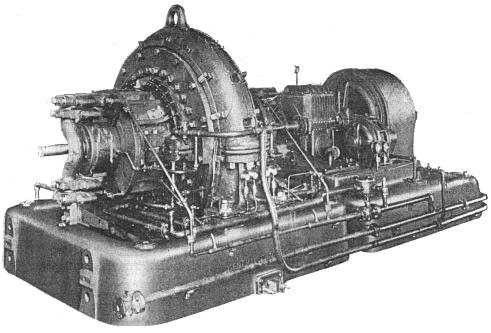 Alexanderson 200-kw alternator radio transmitter installed at the US Navy's New Brunswick, NJ station, 1920. The Alexanderson alternator was an early type of radio transmitter used between 1906 and the mid 1920s, mostly at powerful governmental and Naval radio stations. It consisted of a specialized electric generator spun at extremely high speed to generate radio waves, and was one of the first continuous wave radio technologies to transmit sound (AM). In this device the rotor had 600 poles, rotated at 2170 RPM and the output frequency was 22.1 kHz. The stator was water-cooled. Alexanderson alternators were very expensive, inefficient, and finicky to adjust, and were replaced by vacuum tubes in the 1920s.